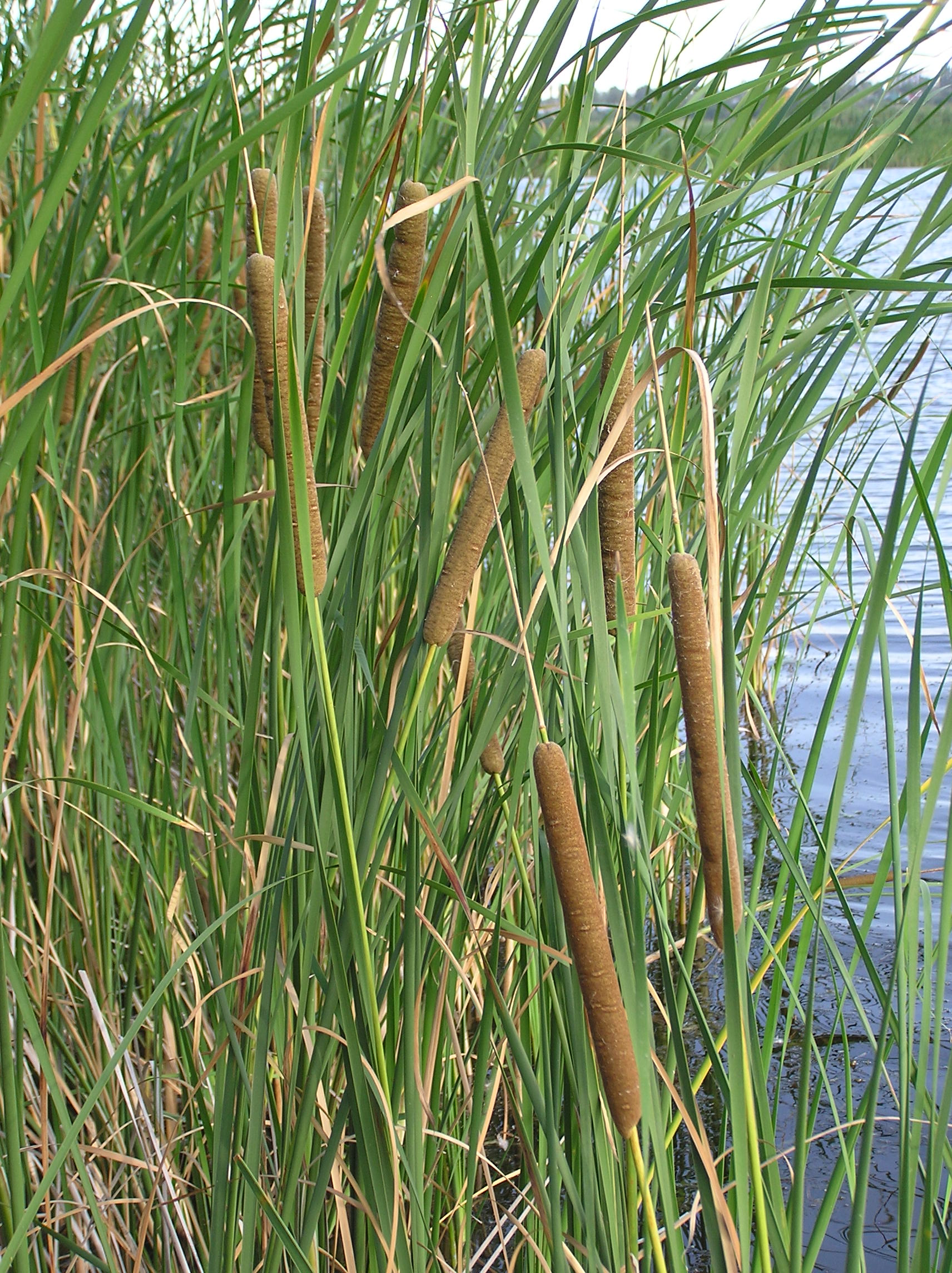 Typha angustifolia L. (Lesser Bulrush or Narrowleaf Cattail or Lesser Reedmace). Habitat: а backwater on Volgograd Reservoir (Volga), Engelssky District, Saratov Oblast, Russia.